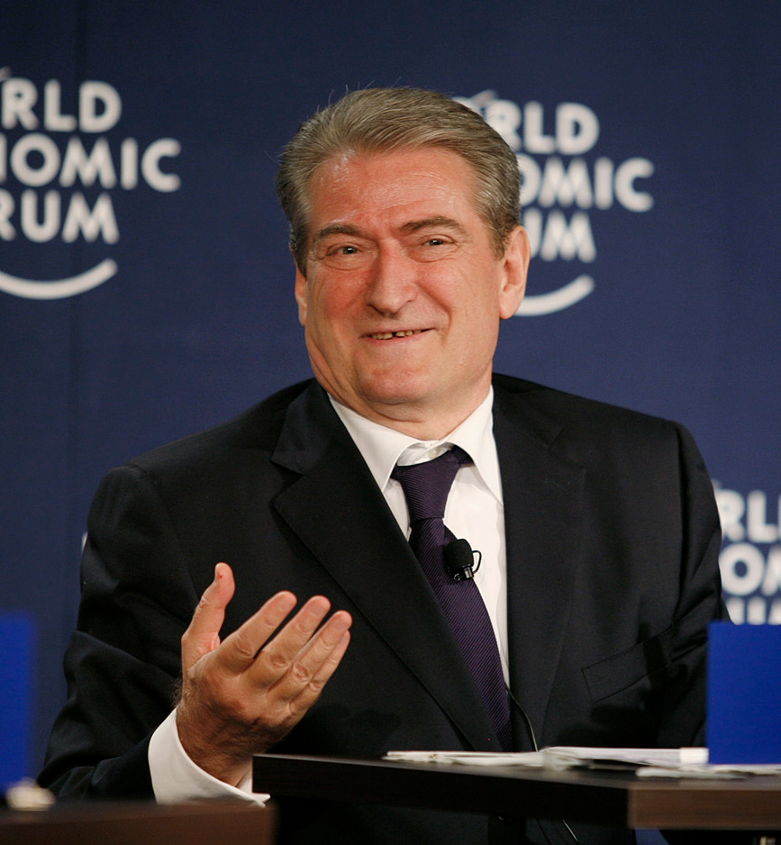 Sali Berisha, Prime Minister of Albania, at the World Economic Forum on Europe and Central Asia in Istanbul, Turkey.